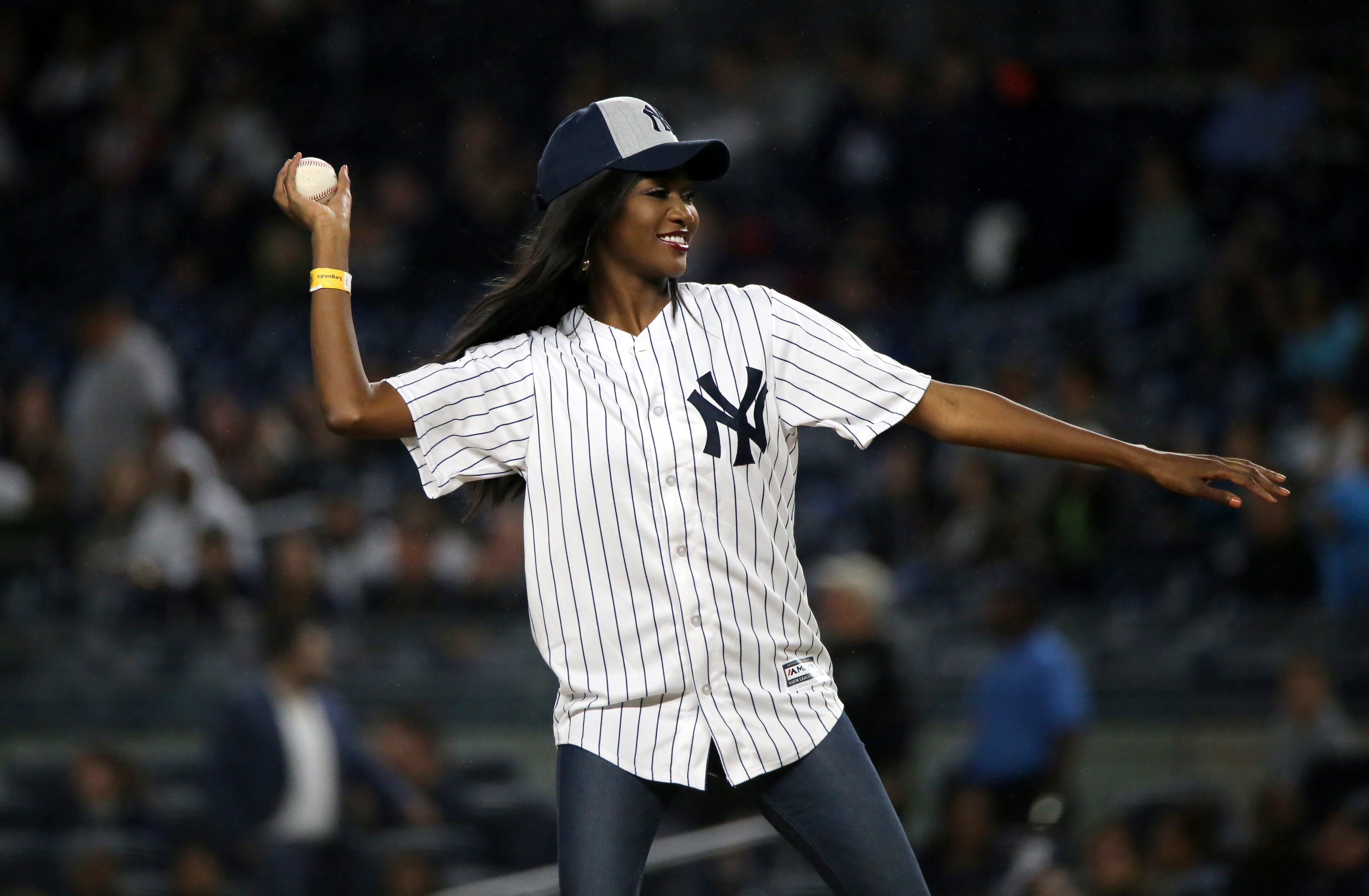 Miss USA 2016 Deshauna Barber throws out the first pitch at Yankee Stadium.